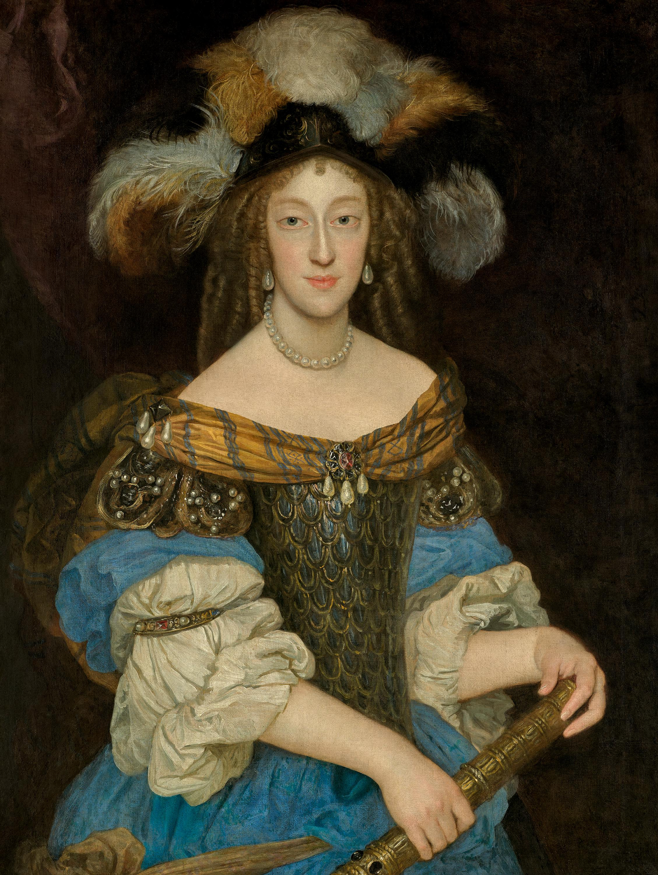 Portrait of Henriette Adelaide of Savoy (Electress of Bavaria) in armour